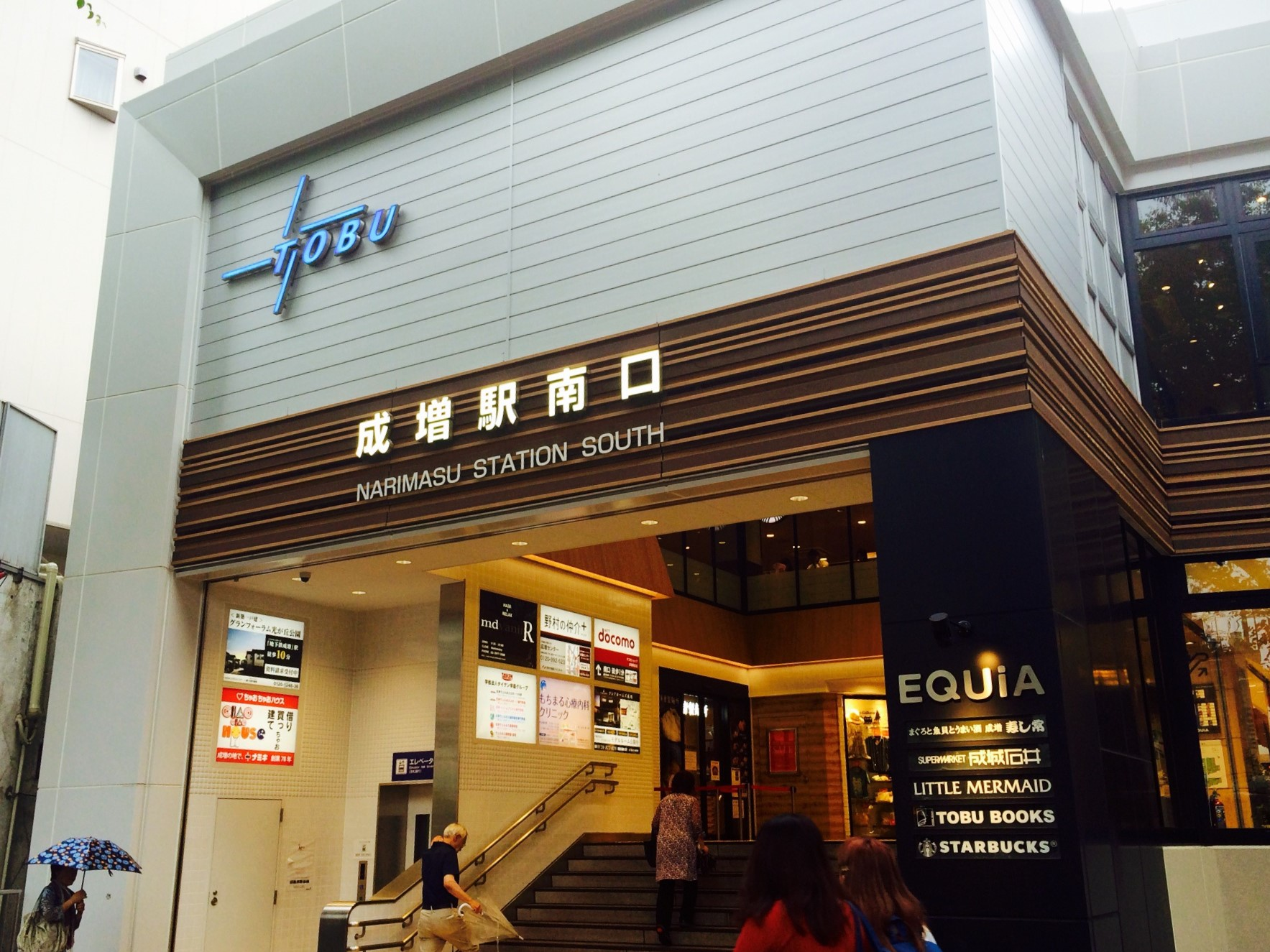 The south entrance to Narimasu Station on the Tobu Tojo Line